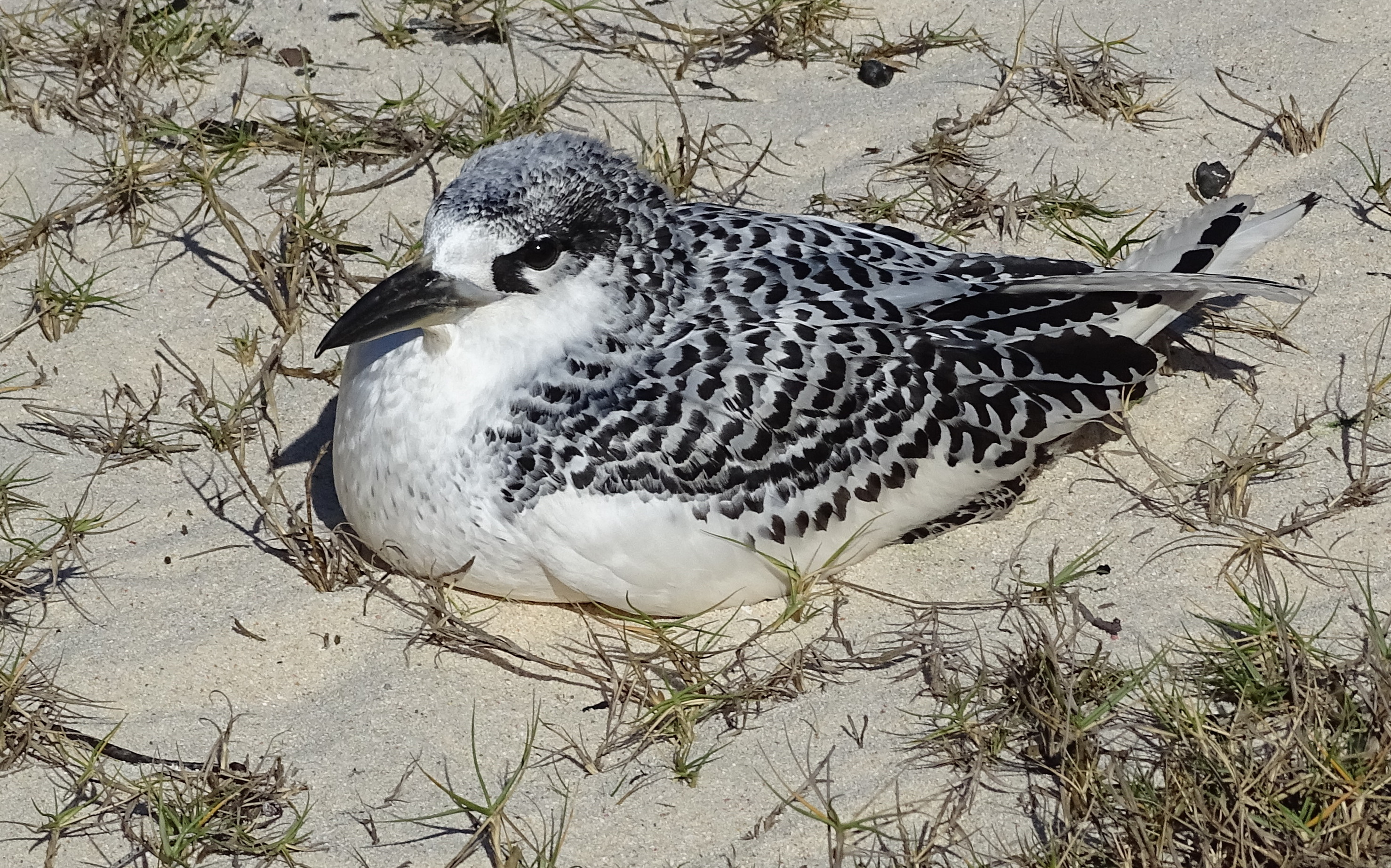 Young red-tailed tropicbird (Phaethon rubricauda) on Nosy Ve, Madagascar